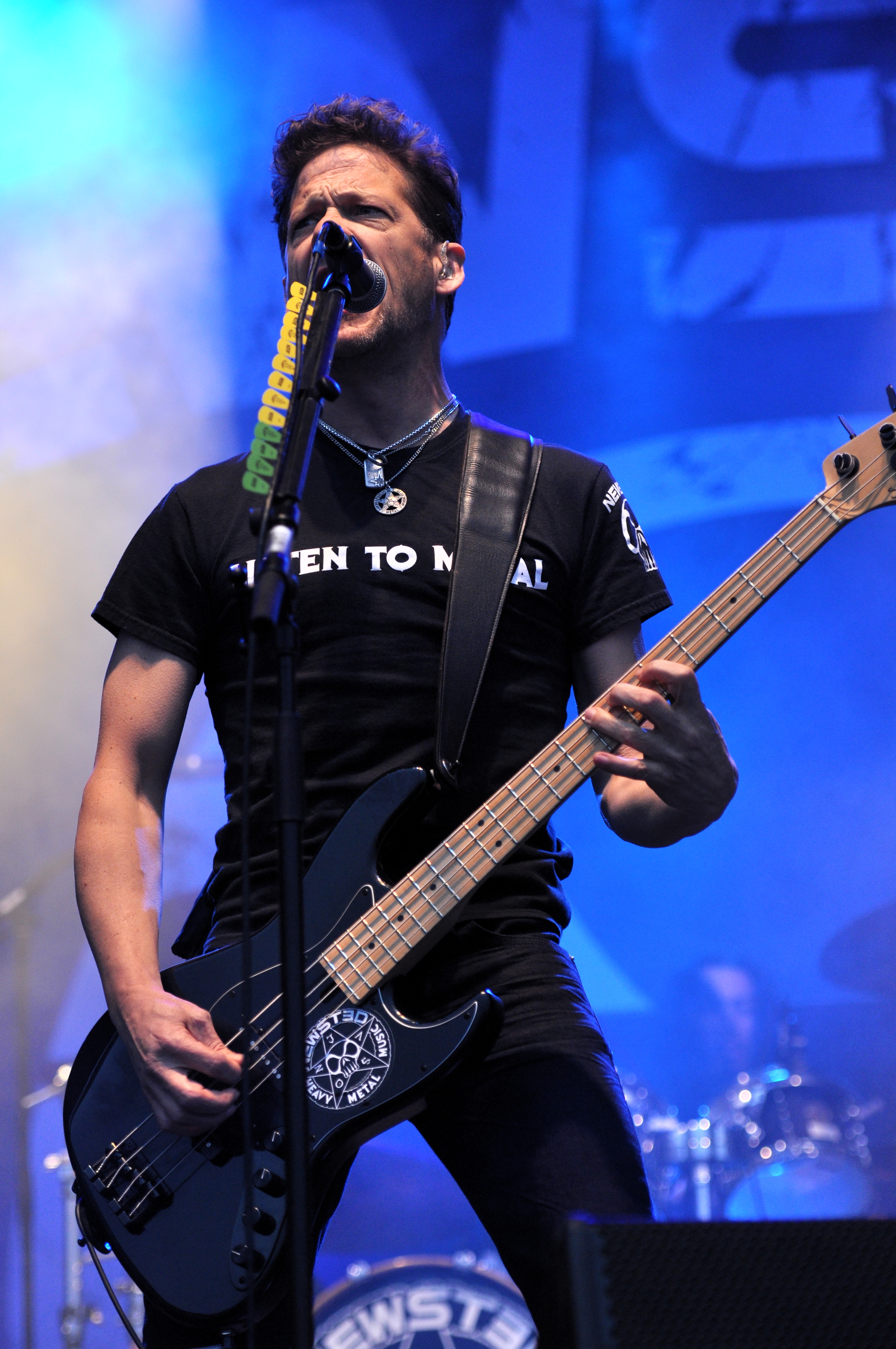 Jason Newsted with his Band Newsted at Rock am Ring 2013